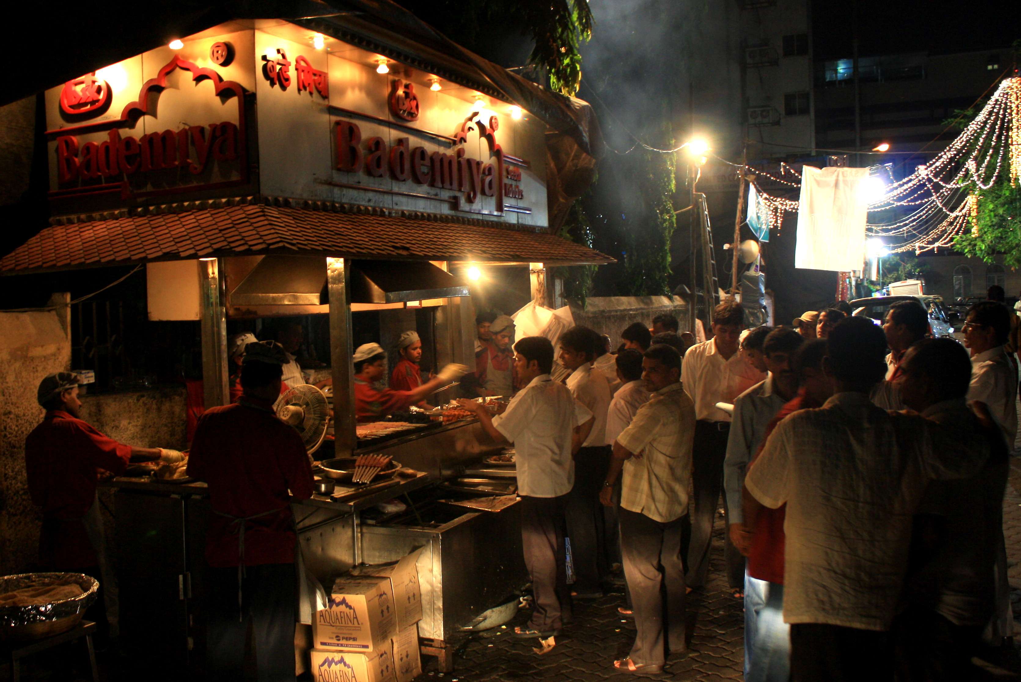 GREAT PLACE TO GET MEAT. Not that I'd know, the Lonely Planet told us. I vowed to return the next day, but forgot.